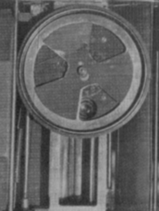 Obturator.